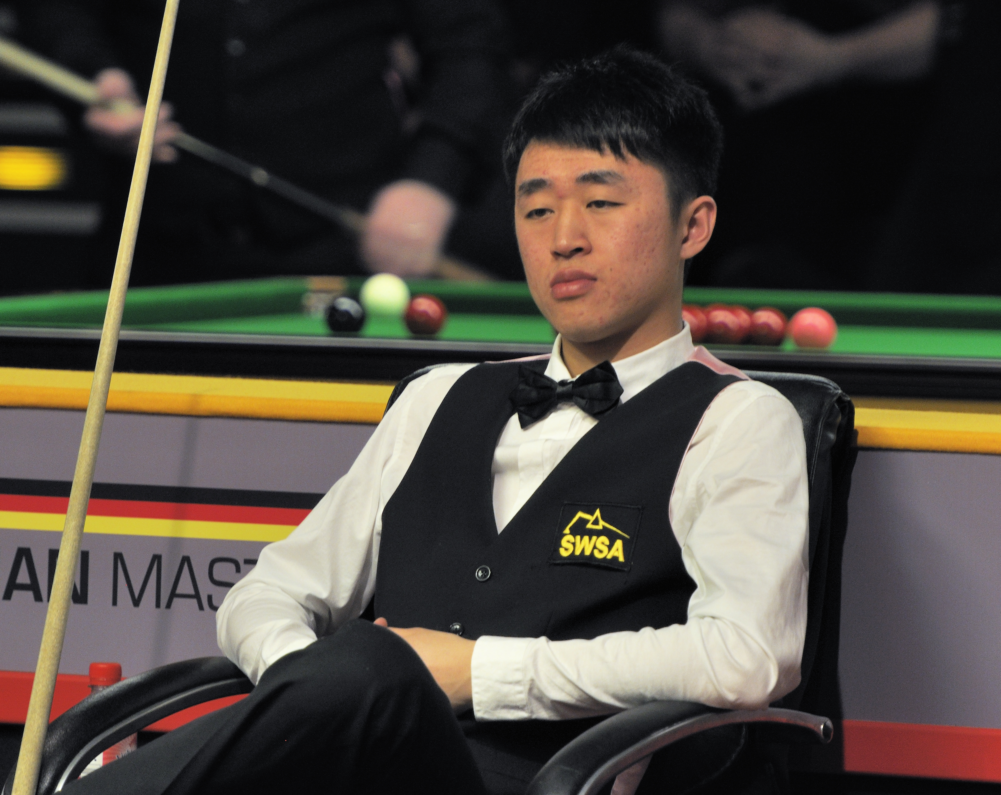 Picture taken in Berlin during the Snooker German Masters in 2014. Liu Chuang.